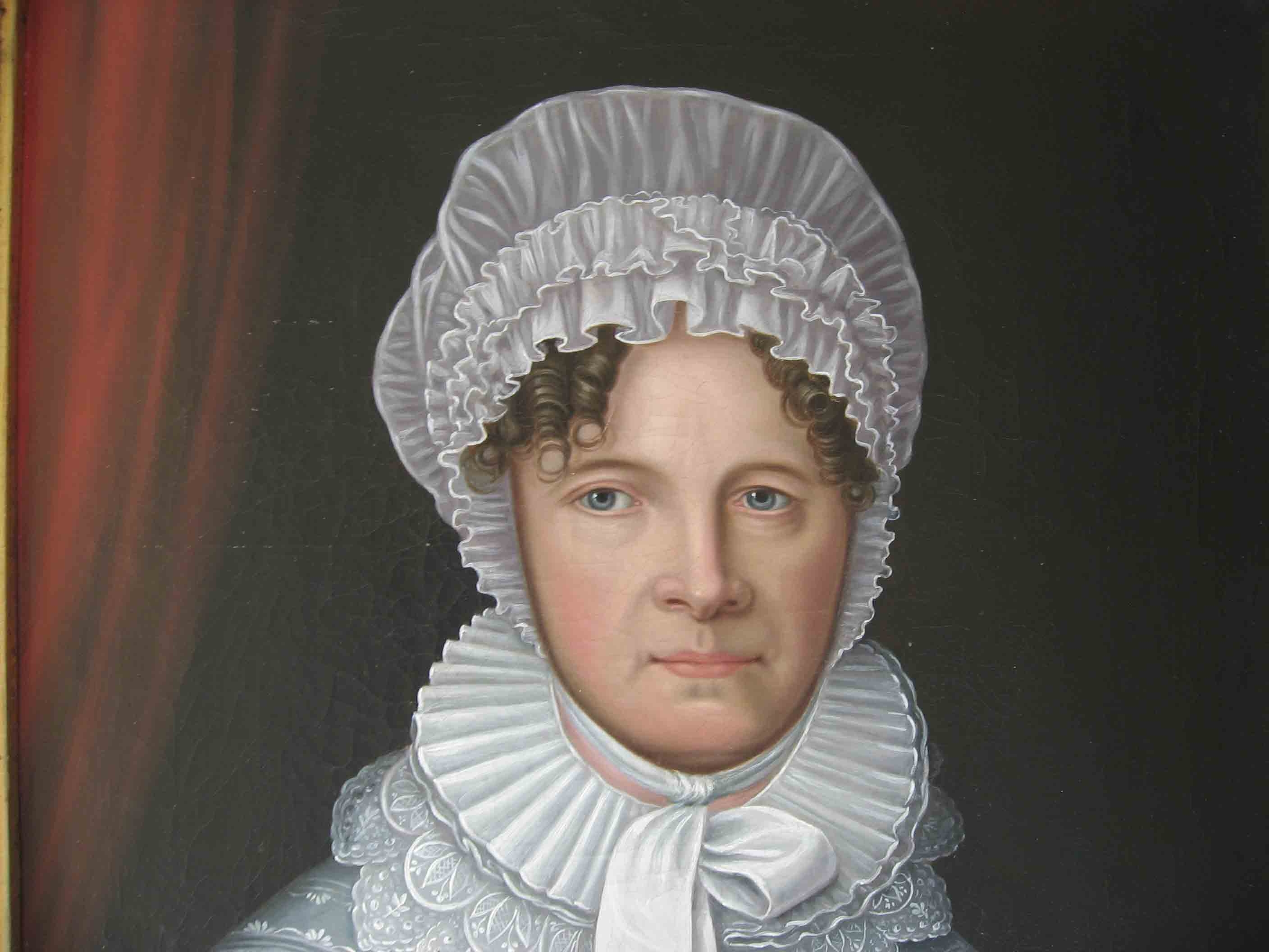 Painting of Cathrine Tank nee von Cappelen (1772-1837) married to Carsten Tank